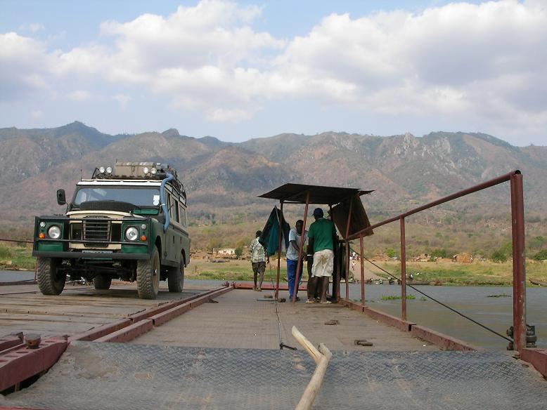 Hand cranked chain ferry moving west across the Shire River in Mozambique. Camera is pointing east. Altitude: 32 meters